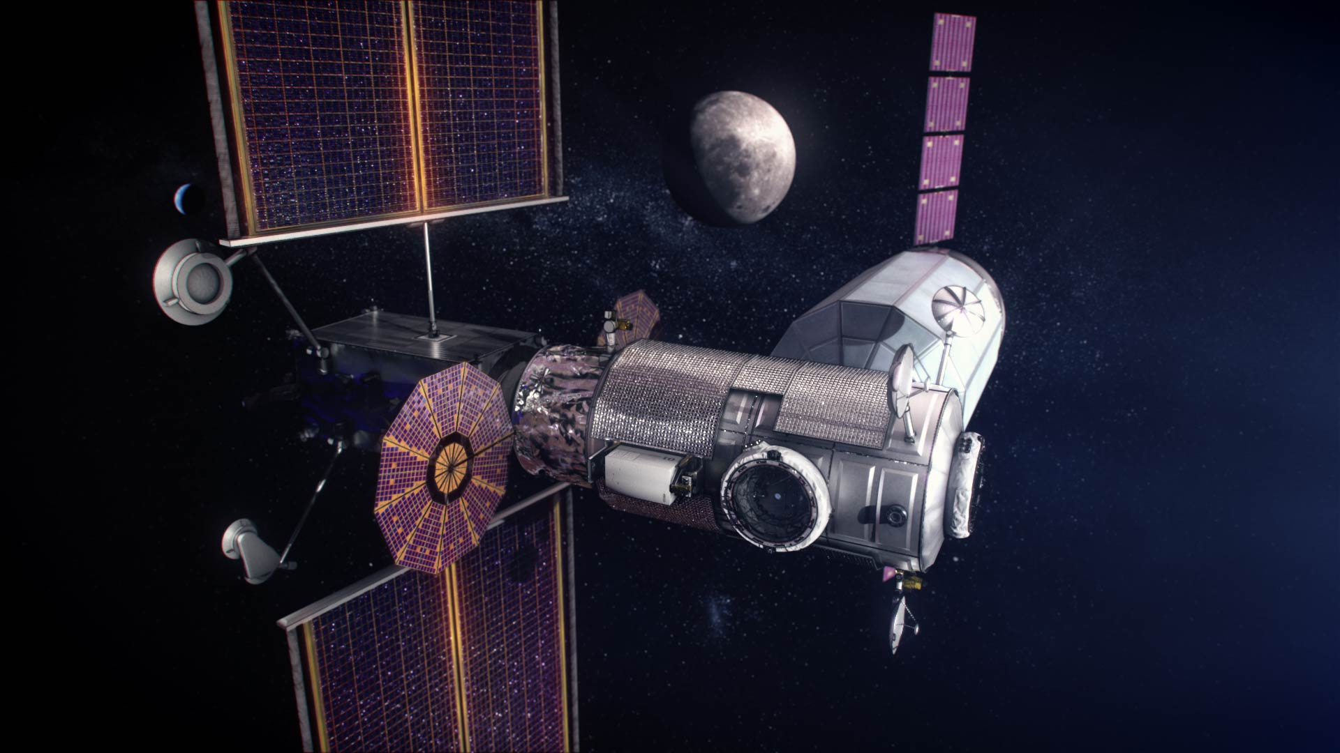 Concept art of the Lunar Gateway space station as it is intended to appear in 2024, with the Power and Propulsion Element (left), Habitation and Logistics Outpost (center foreground), and cargo spacecraft (center background) depicted.